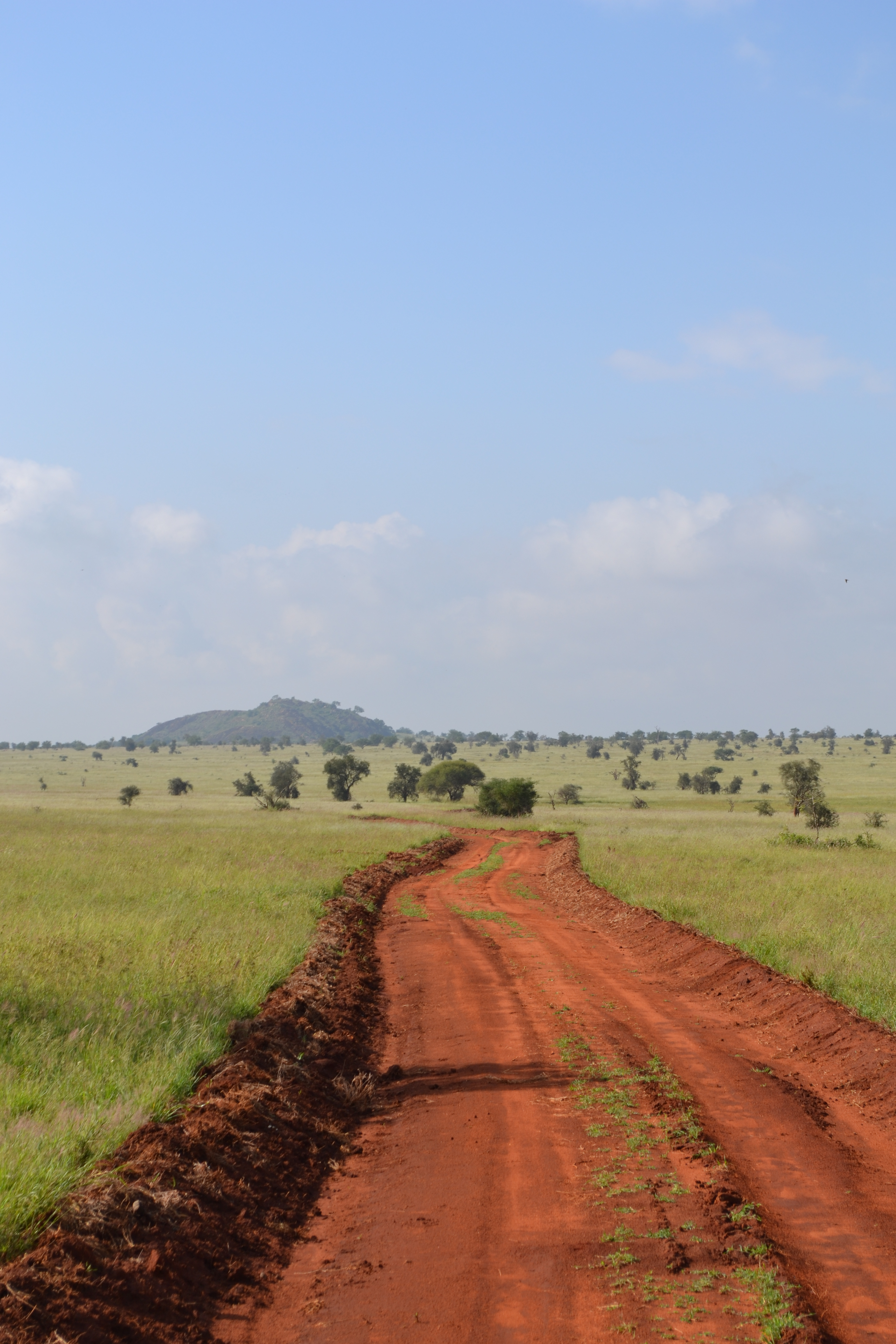 Dirt road facing south, in the LUMO Community Wildlife Sanctuary, near the main gate to the park, in Kenya.